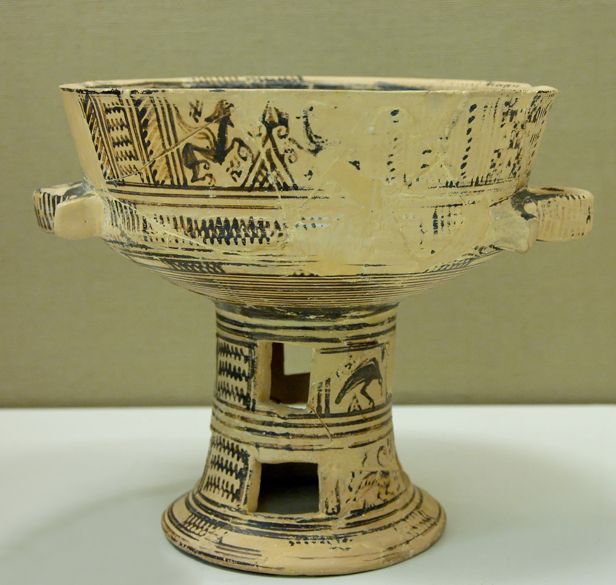 Protoattic skyphos set on an openwork stand, with sphinxes, swans and a vulture.